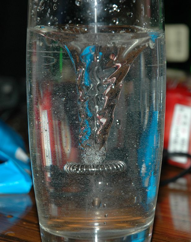 This is a photo of a whirlpool produced in a glass of water with a cappuccino mixer. I took it with a Nikon D70 camera.